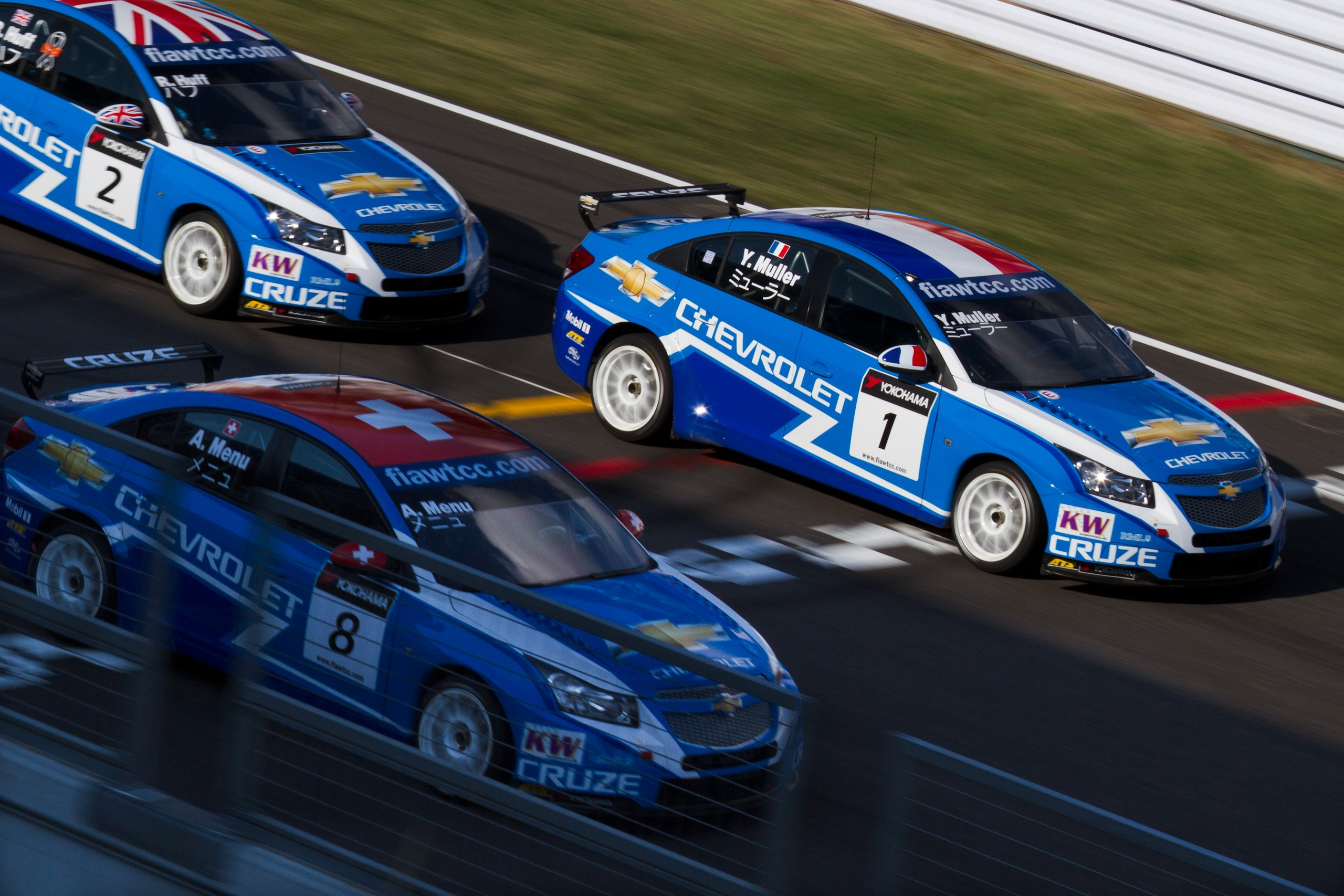 World Touring Car Championship 2011 Race of Japan: Chevrolet trio (Alain Menu, Yvan Muller, and Robert Huff) at the start of Race 1.